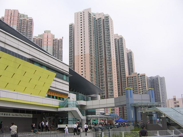 Sau Mau Ping Estate, Sau Mau Ping